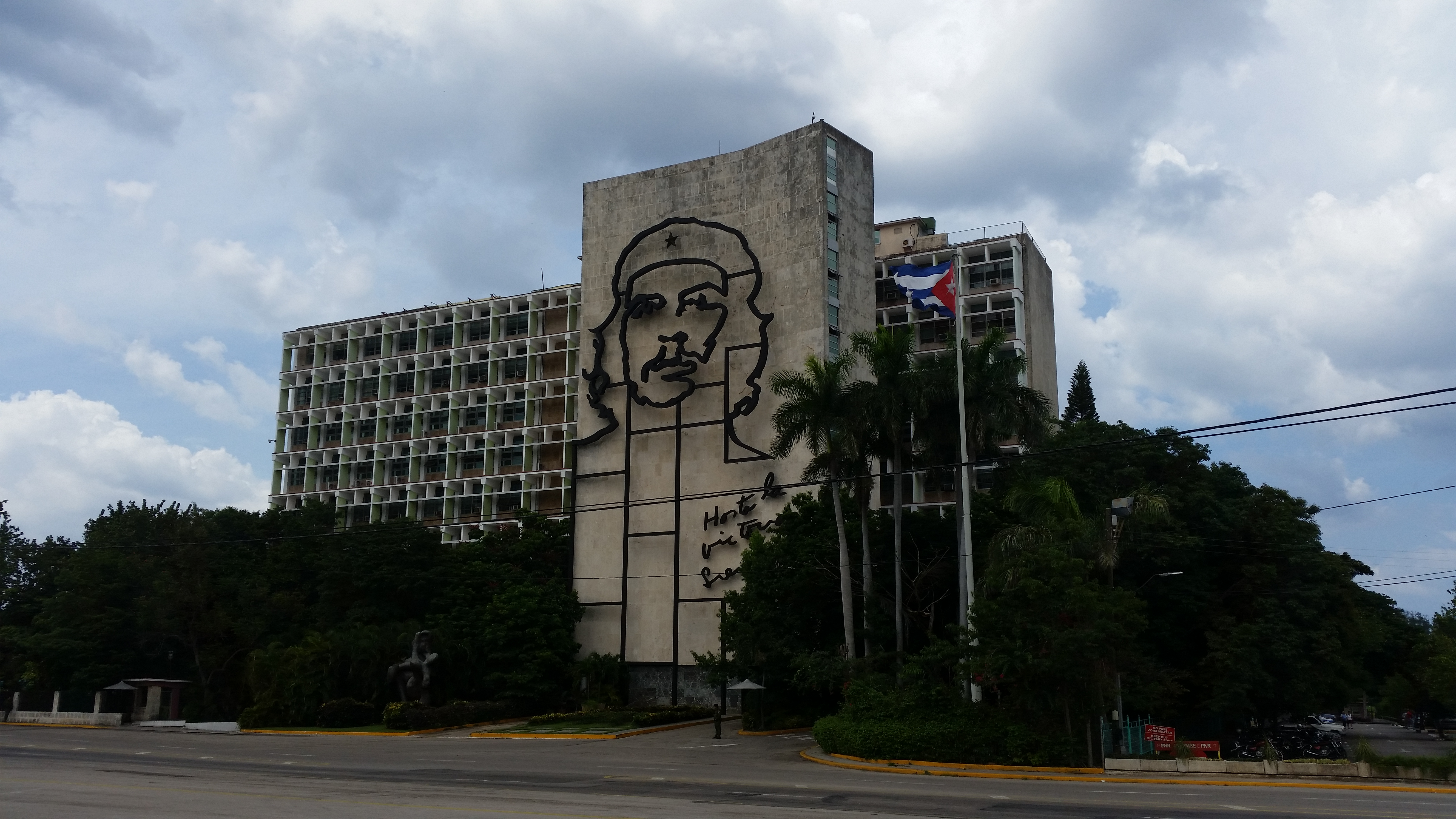 Building of the Ministry of the Interior with a steel memorial to Cuban revolutionair Che Guevara.